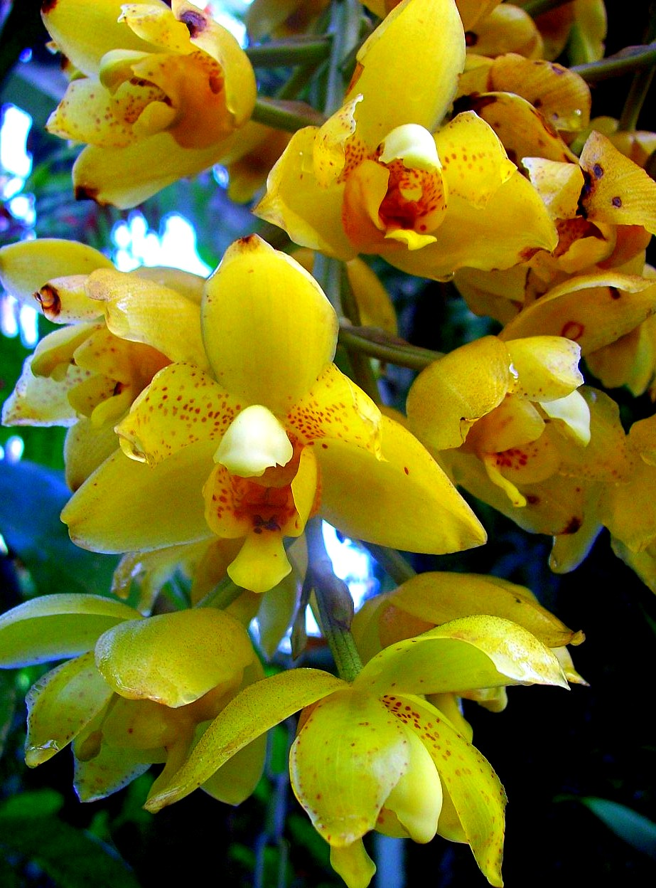 Orchid "acineta barkeri" Botanical Garden Heidelberg, University Heidelberg